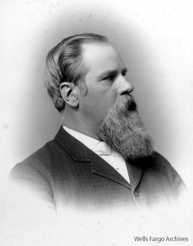 John J. Valentine, Wells, Fargo & Company President from 1892 until his death in 1901. He worked his way up through the ranks of the company.